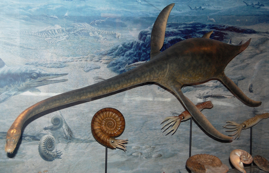 The plesiosaur would have lived in Scotland's ancient lochs. It looks a lot like the Loch Ness monster - co-incidence? National Museum of Scotland, Edinburgh